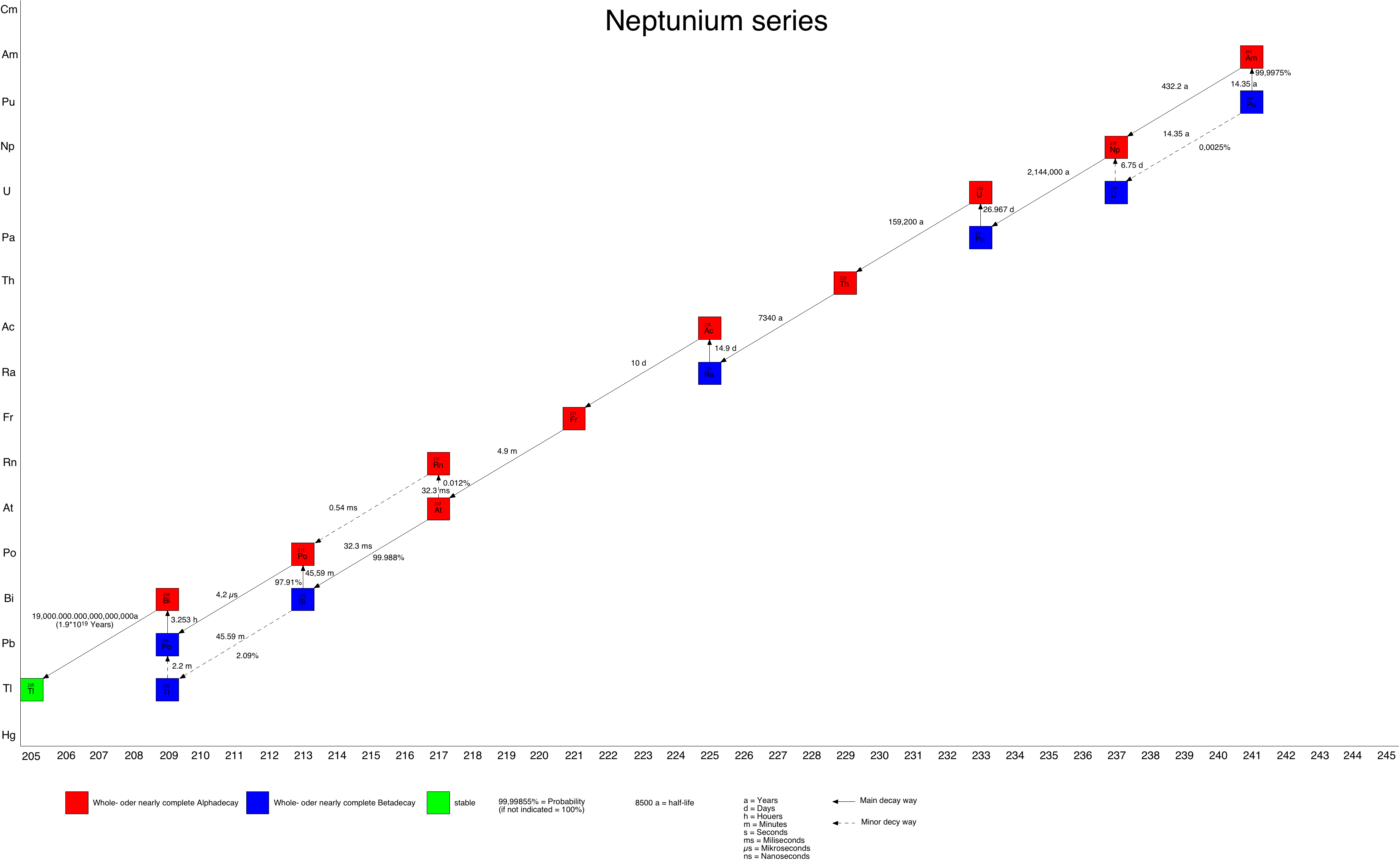 The Neptunium series.